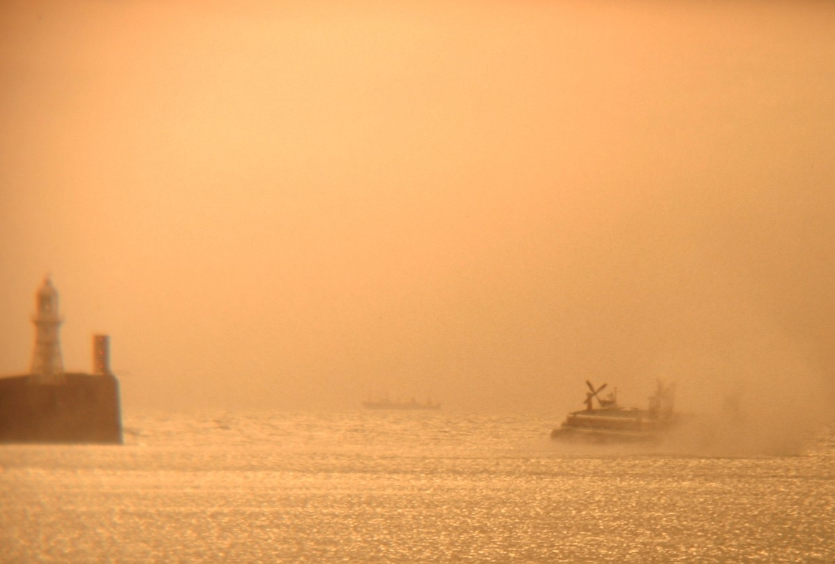 The biggest Hovercraft in the world departing from Dover (UK)